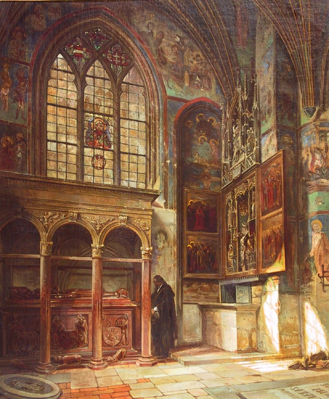 Interior of Holy Cross Chapel in Wawel Cathedral, Historical Museum in Kraków